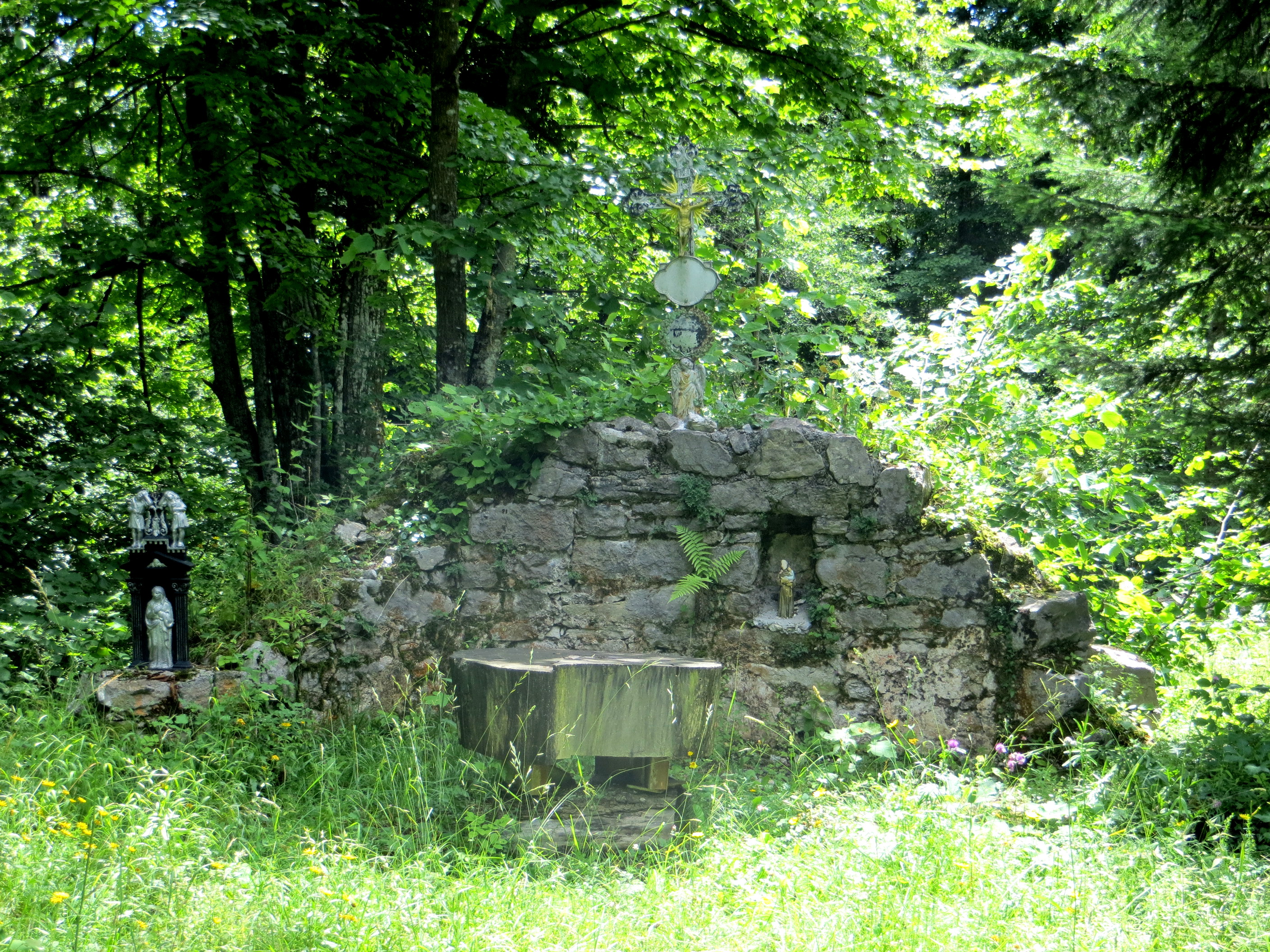 Remnant of Saint Anthony the Great Church in Kleč (now part of Planina), Municipality of Semič, Slovenia